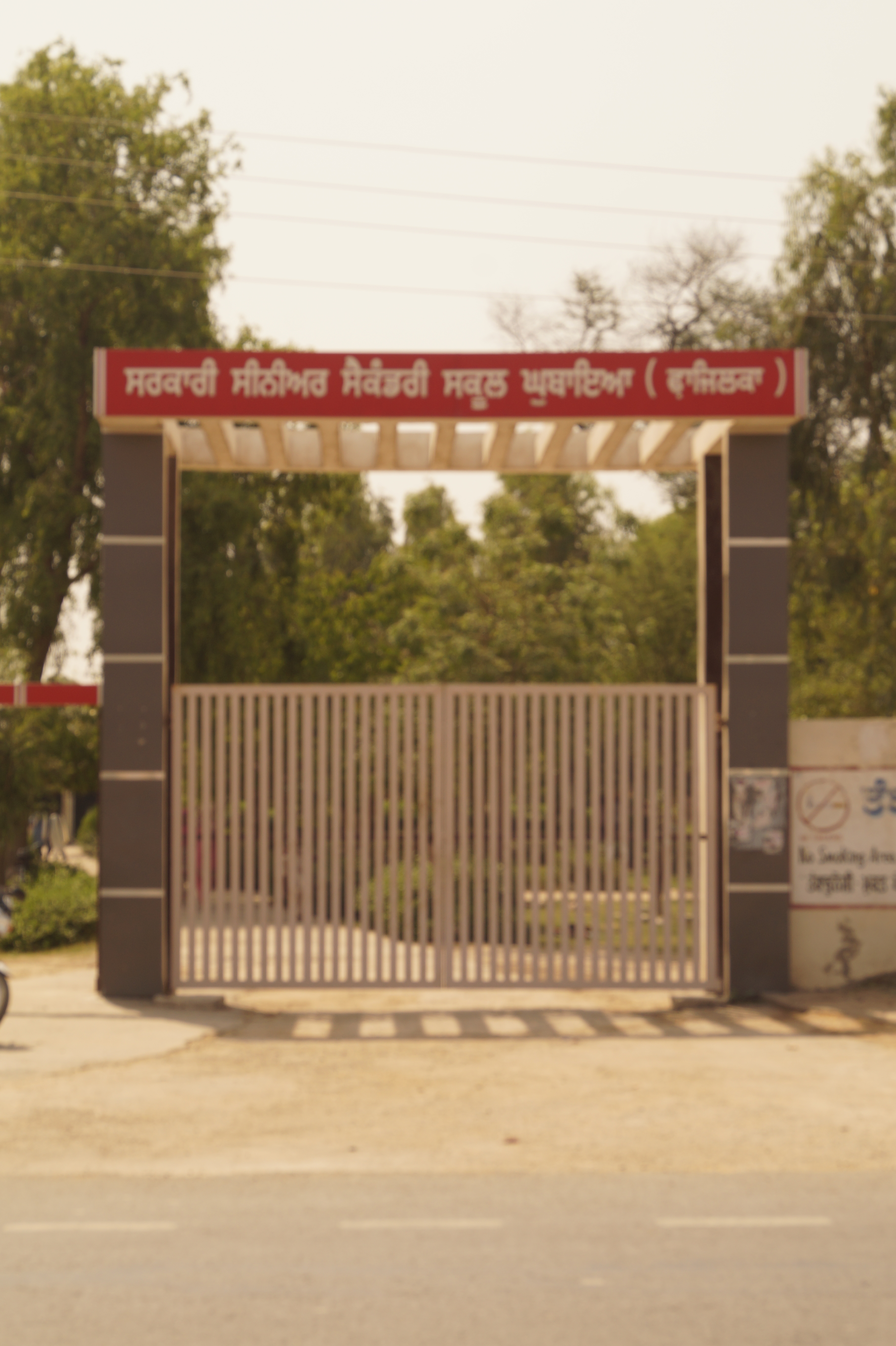 Govt. Senior Secondary School Ghubya (Fazilka)